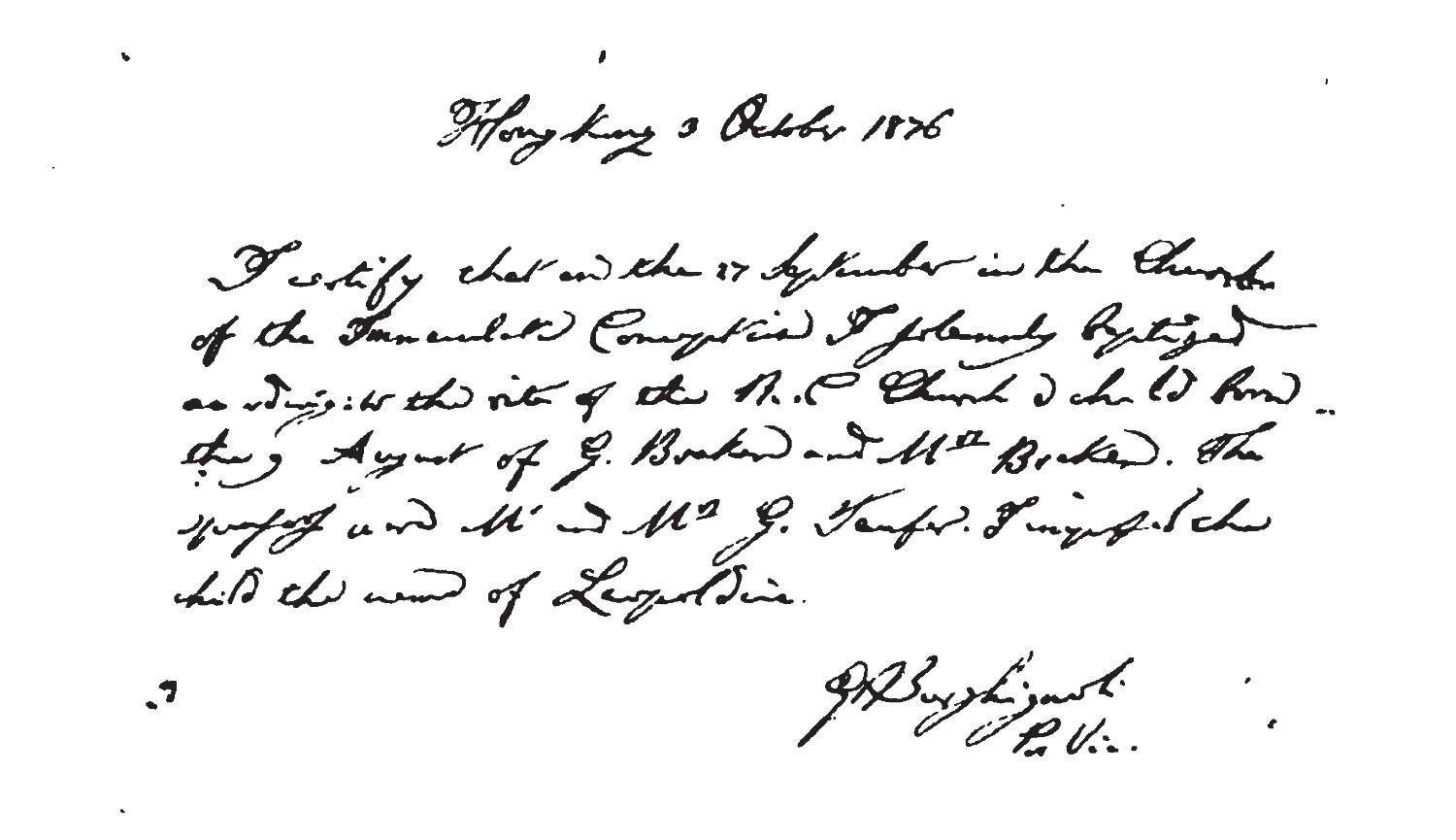 The baptismal certificate of Josephine Bracken, the wife of Jose Rizal, national hero of the Philippines.